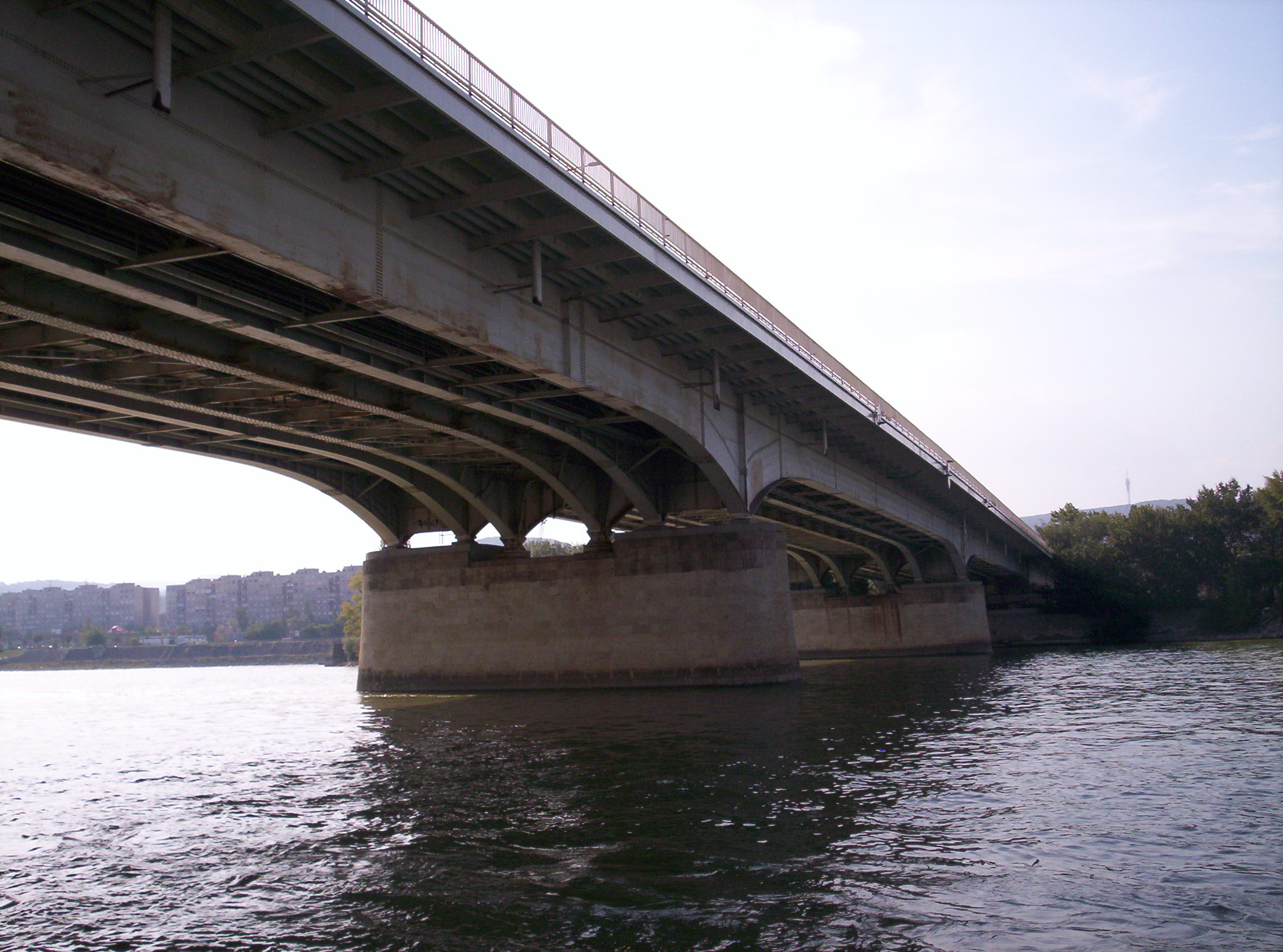 Árpád bridge